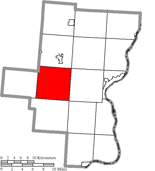 Map of the municipal and township boundaries of Gallia County, Ohio, United States, as of the 2000 census, with the location of Perry Township highlighted. Township borders are shown only in unincorporated areas in order to differentiate incorporated and unincorporated areas more clearly.